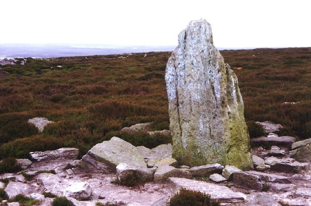 Blue Man in the Moss.......... Wheeldale Moor. Wheeldale Moor is crossed on the long distance 'Lyke Wake Walk'